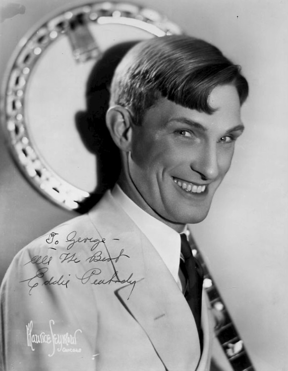 Photo of musician Eddie Peabody, who was well-known for playing the banjo.